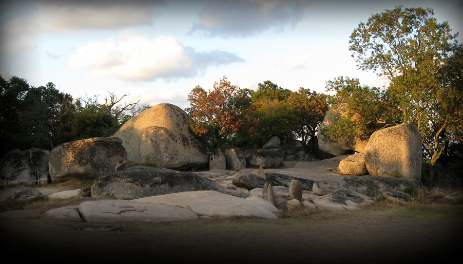 beglik tash